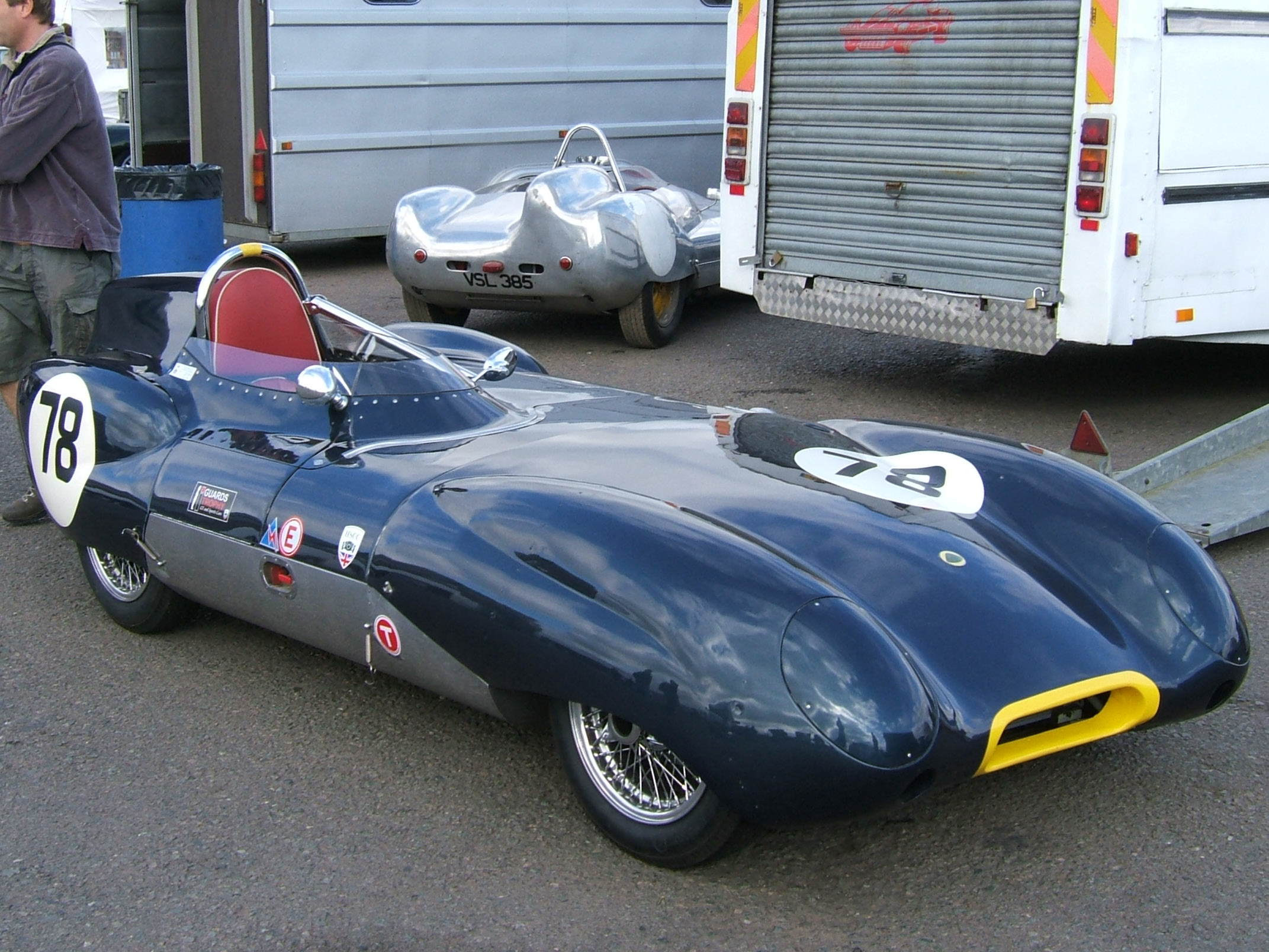 A Lotus Eleven, with a Lotus 15 behind, waiting in the paddock of the VSCC SeeRed race meeting, Donington Park, September 2007.